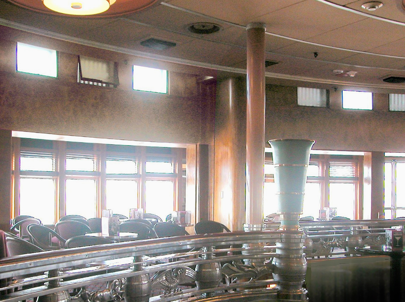 The Observation Bar lounge on the RMS Queen Mary. The windows were once part of the enclosed Promenade Deck turnaround; the lounge was extended forward after 1967. The lounge faces forward on the vessel.